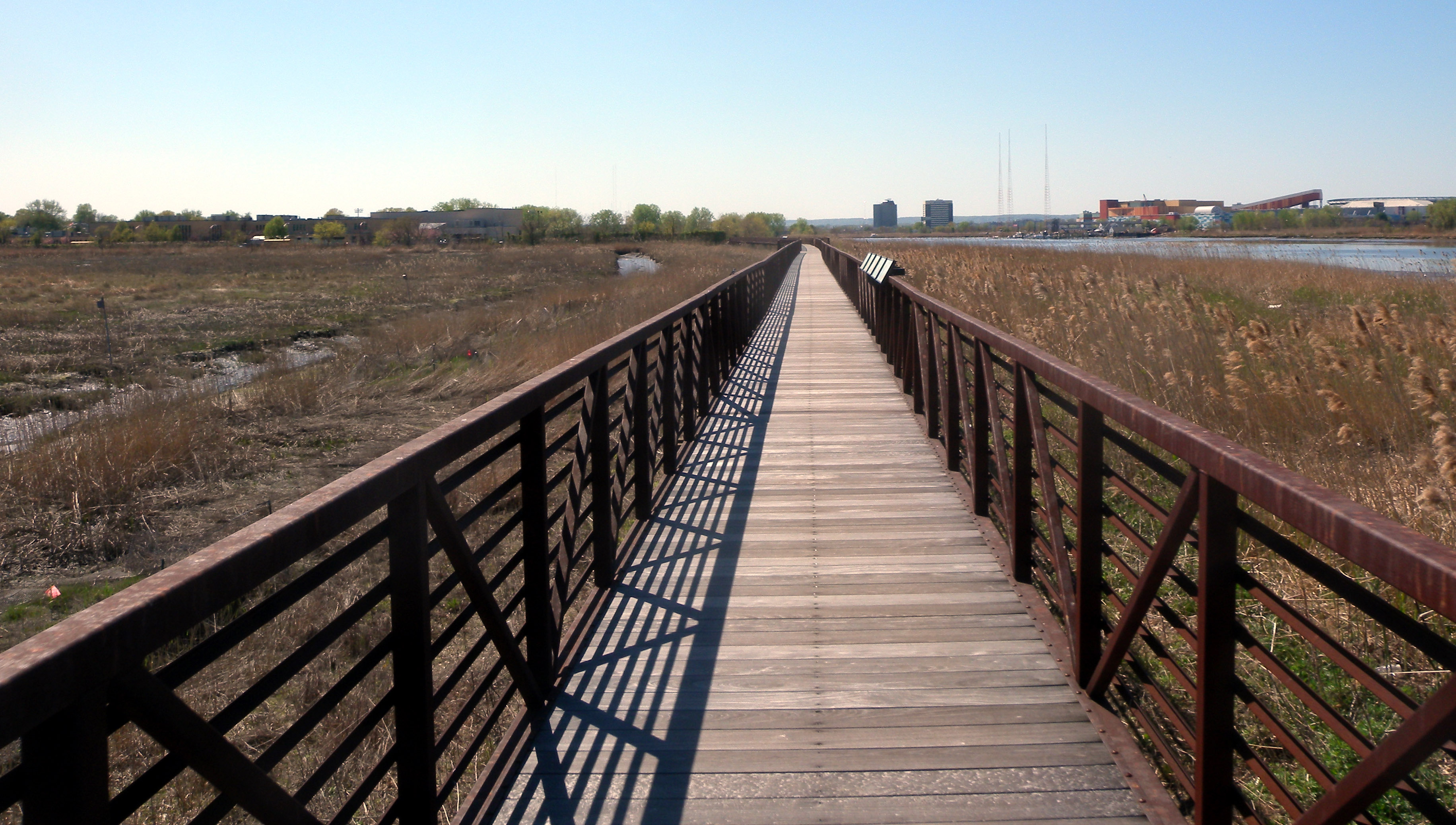 Looking west along new walkway over New Jersey Meadowlowlands on a sunny midday at the north end of Secaucus. Meadowlands Sports Complex is distant on the right.